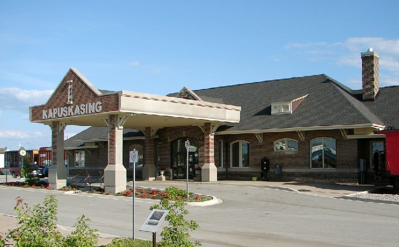 Train Station (now also serving as offices for the Economic Development Council and Tourism Bureau) in Kapuskasing, Ontario, Canada